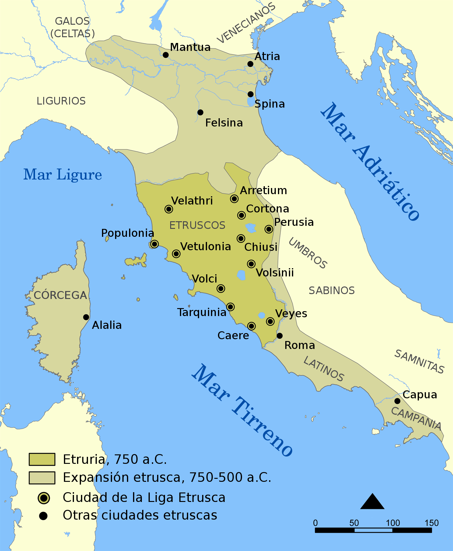 A map showing the extent of Etruria and the Etruscan civilization. The map includes the 12 cities of the Etruscan League and notable cities founded by the Etruscans. The dates on the map are an approximation based on the sources I had. If the article is updated with more accurate dates let me know and I'll modify this map to suit.